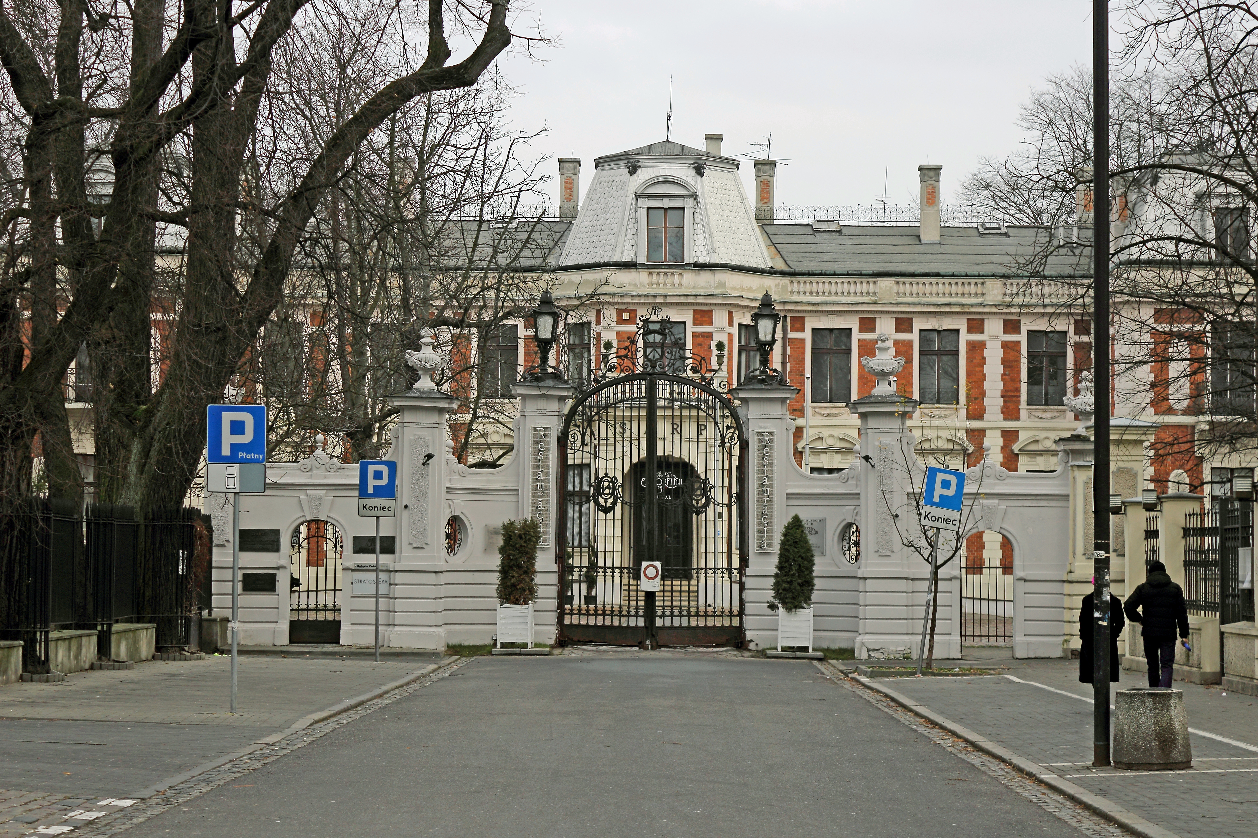 Wer dieses Bild benutzen möchte, der möge bitte den Link auf seiner Seite einbinden. If you want to use this picture, please implement the link on the website containing the picture.